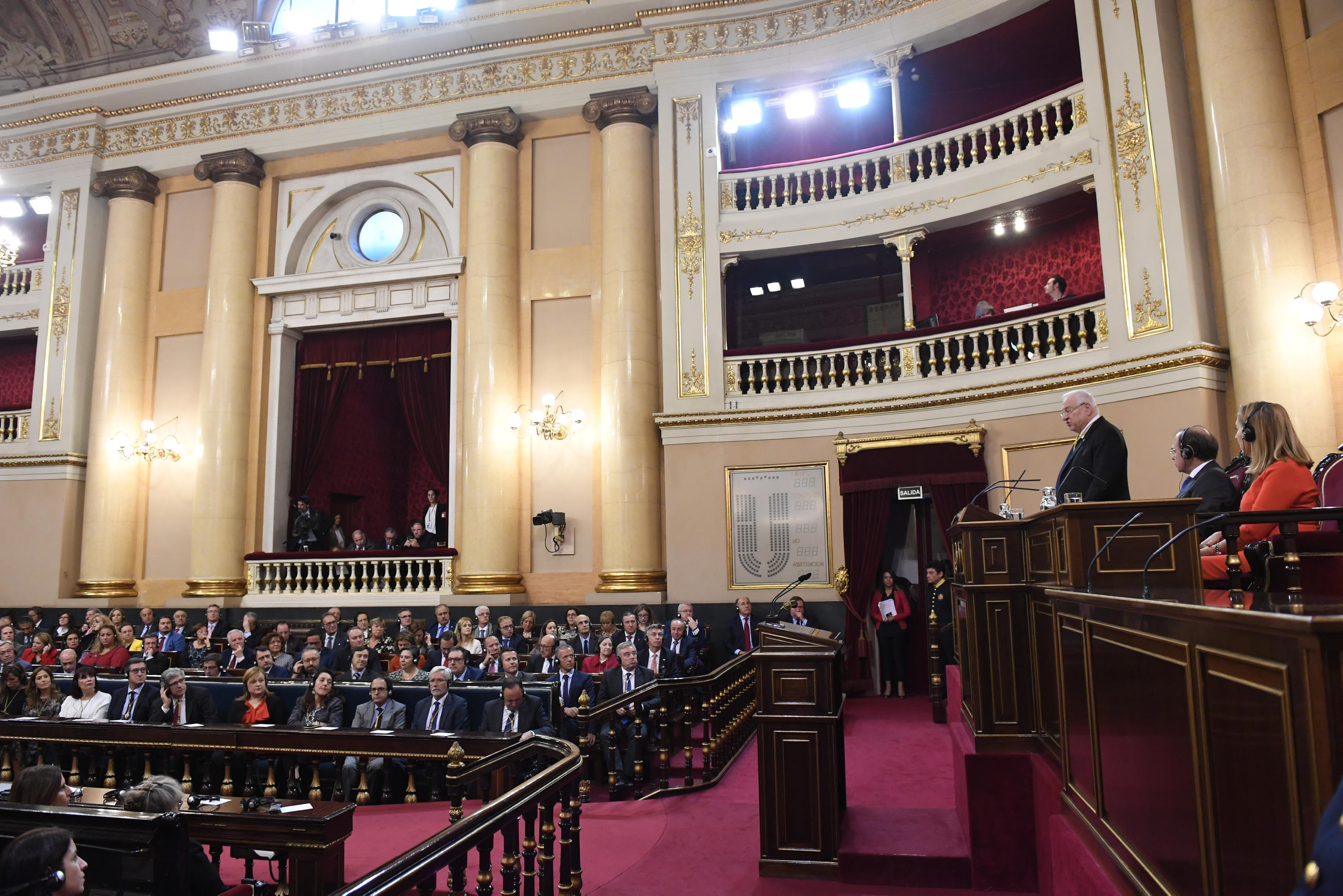 The President of the State, Reuven Rivlin, addresses the two Houses of Representatives of the Spanish Senate. Tuesday, November 7, 2017. Photo Credit: Haim Tzach / GPO.